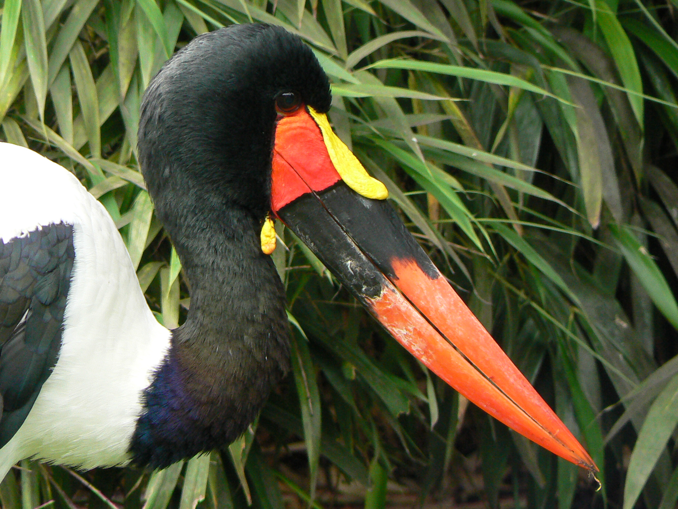 Saddlebilded storch at the zoo of hamburg, germany